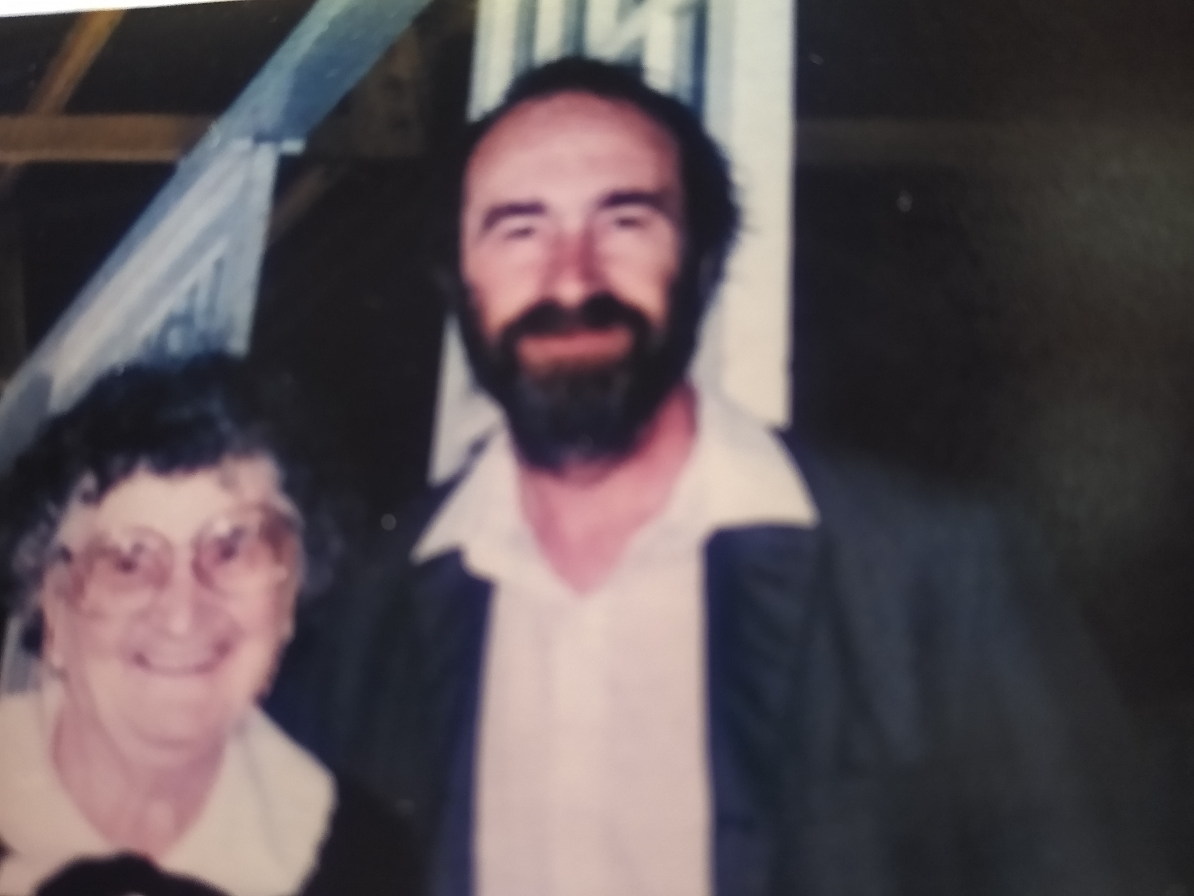 Arthur Maud and his mother, Frances Lyda Whitaker Maud.